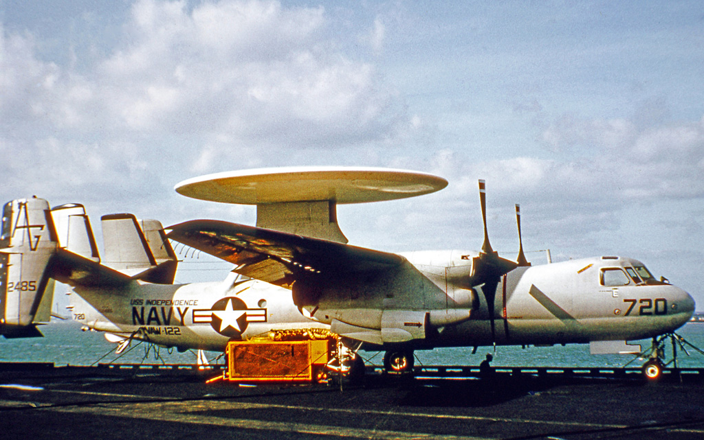 Grumman E-2A Hawkeye 152485 of VAW-122 Squadron aboard USS Independence in 1969